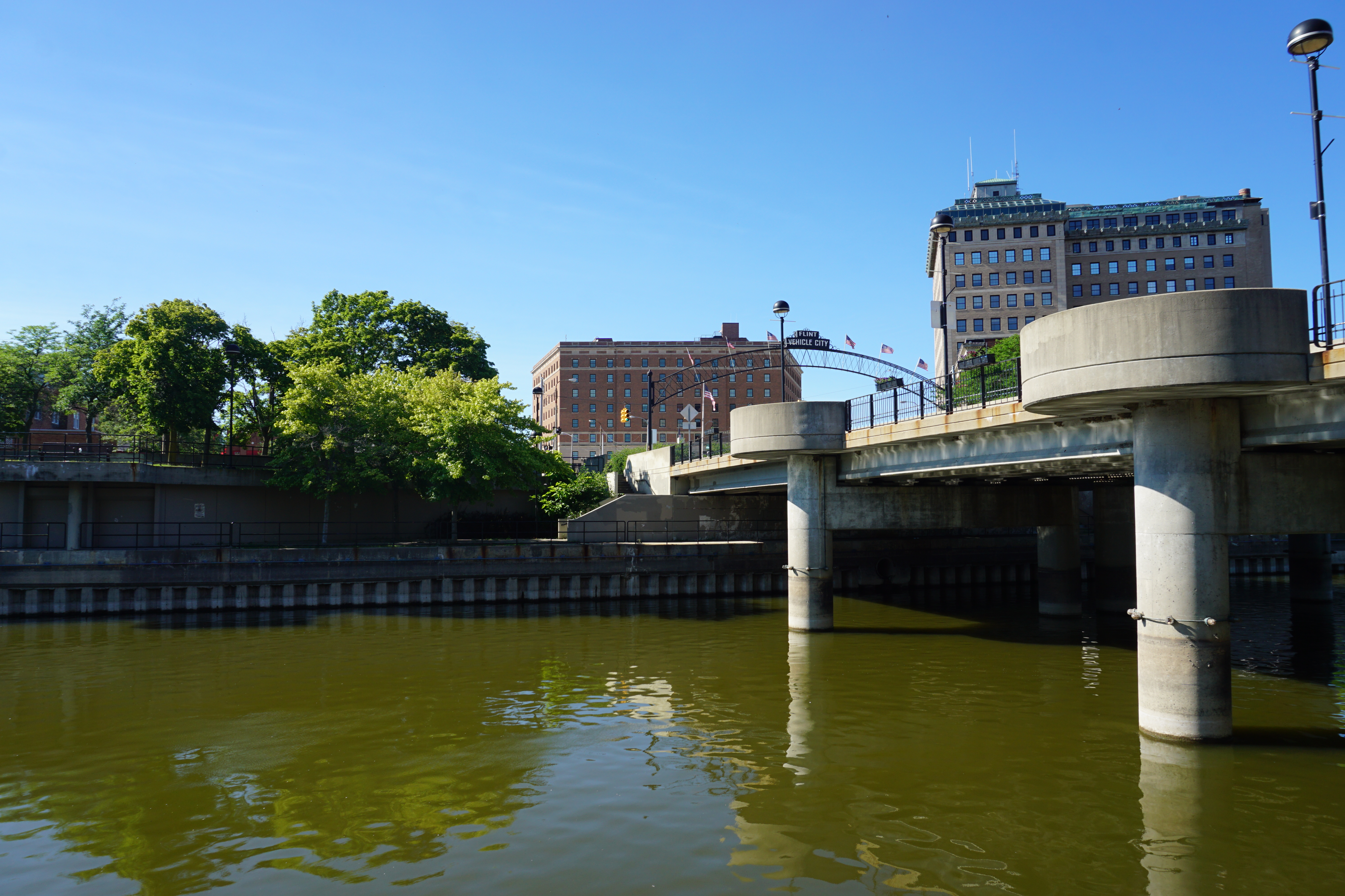 The Flint River in Flint, Michigan (United States).